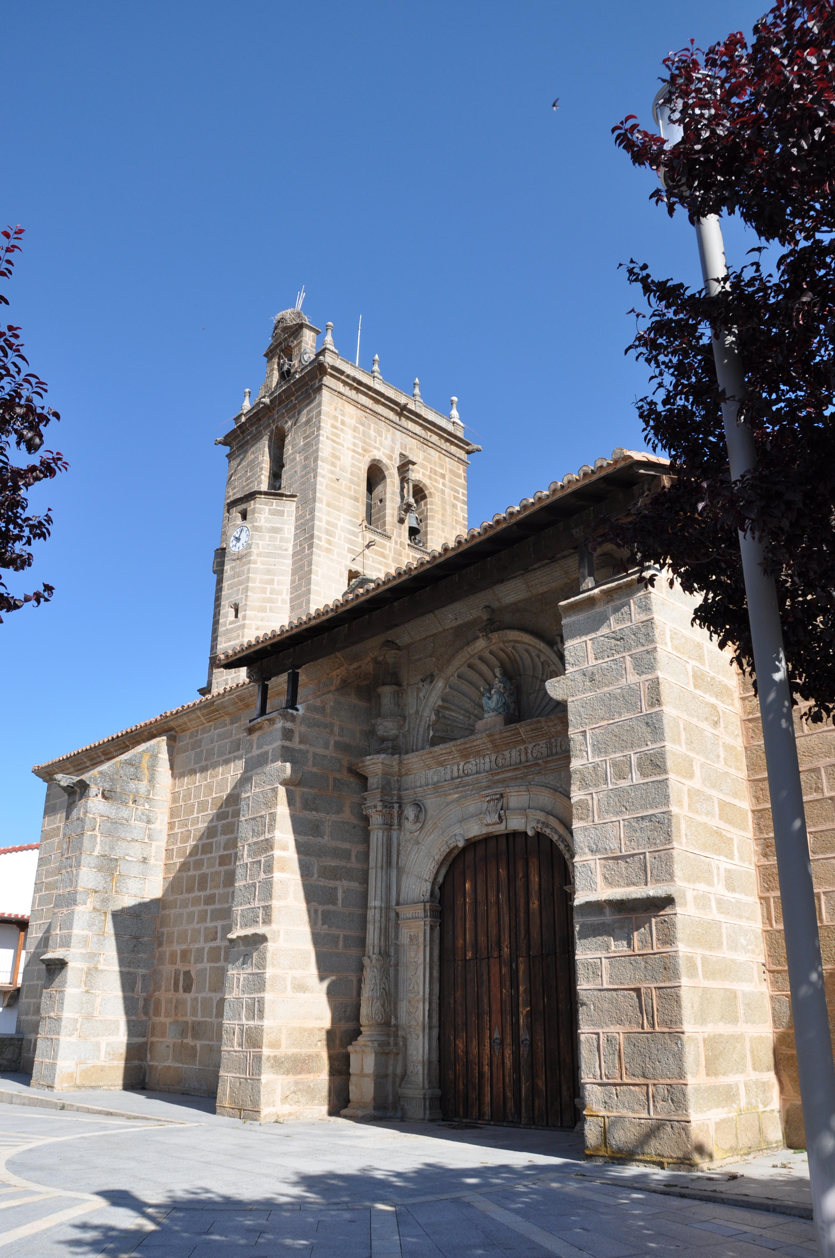 Parish Church of the Immaculate Conception, Becedas, Ávila, Spain